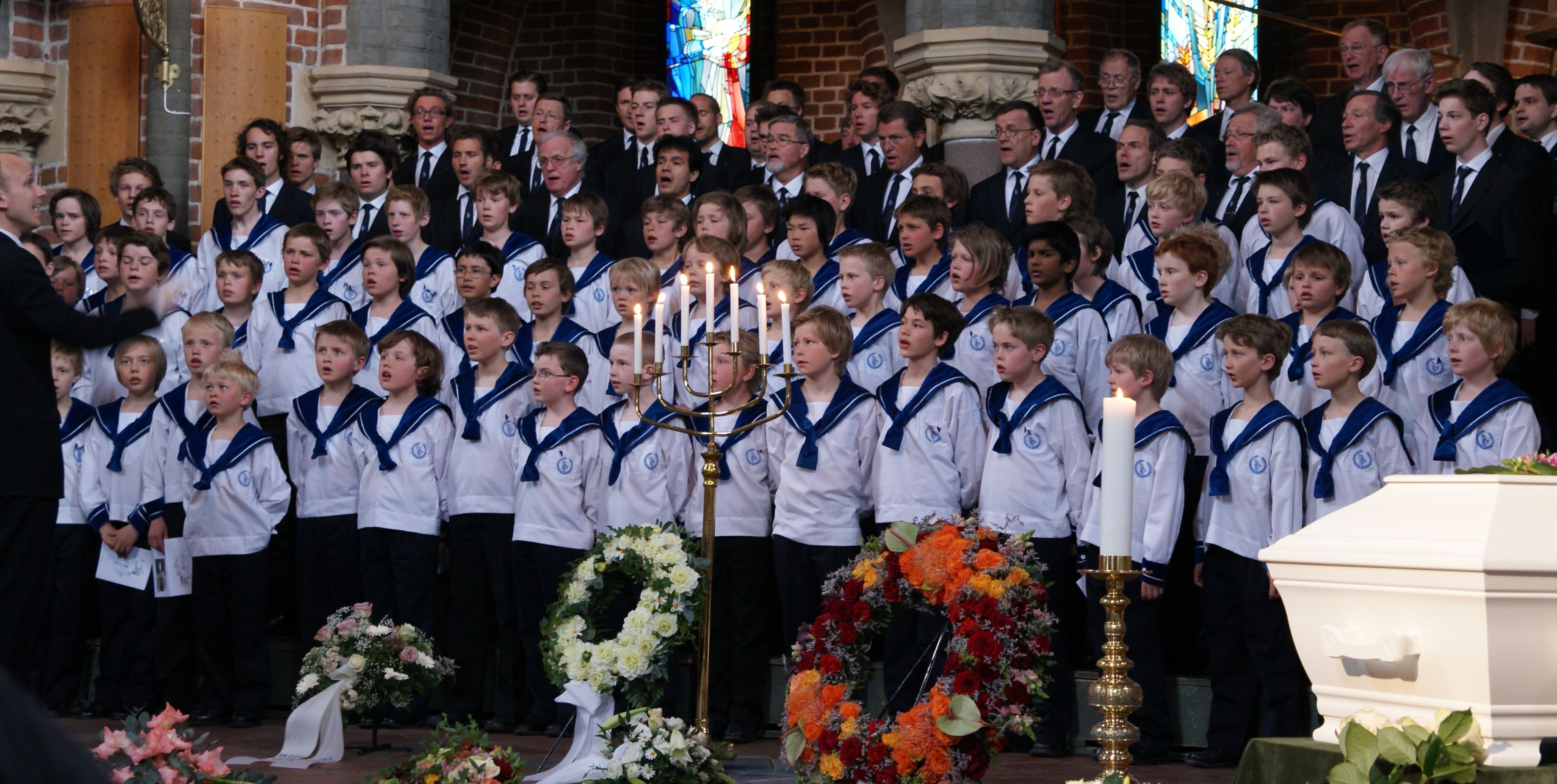 The Norwegian boys' choir Sølvguttene singing at the funeral of their founder, Torstein Grythe in May 2009, at Trefoldighetskirken, Oslo.